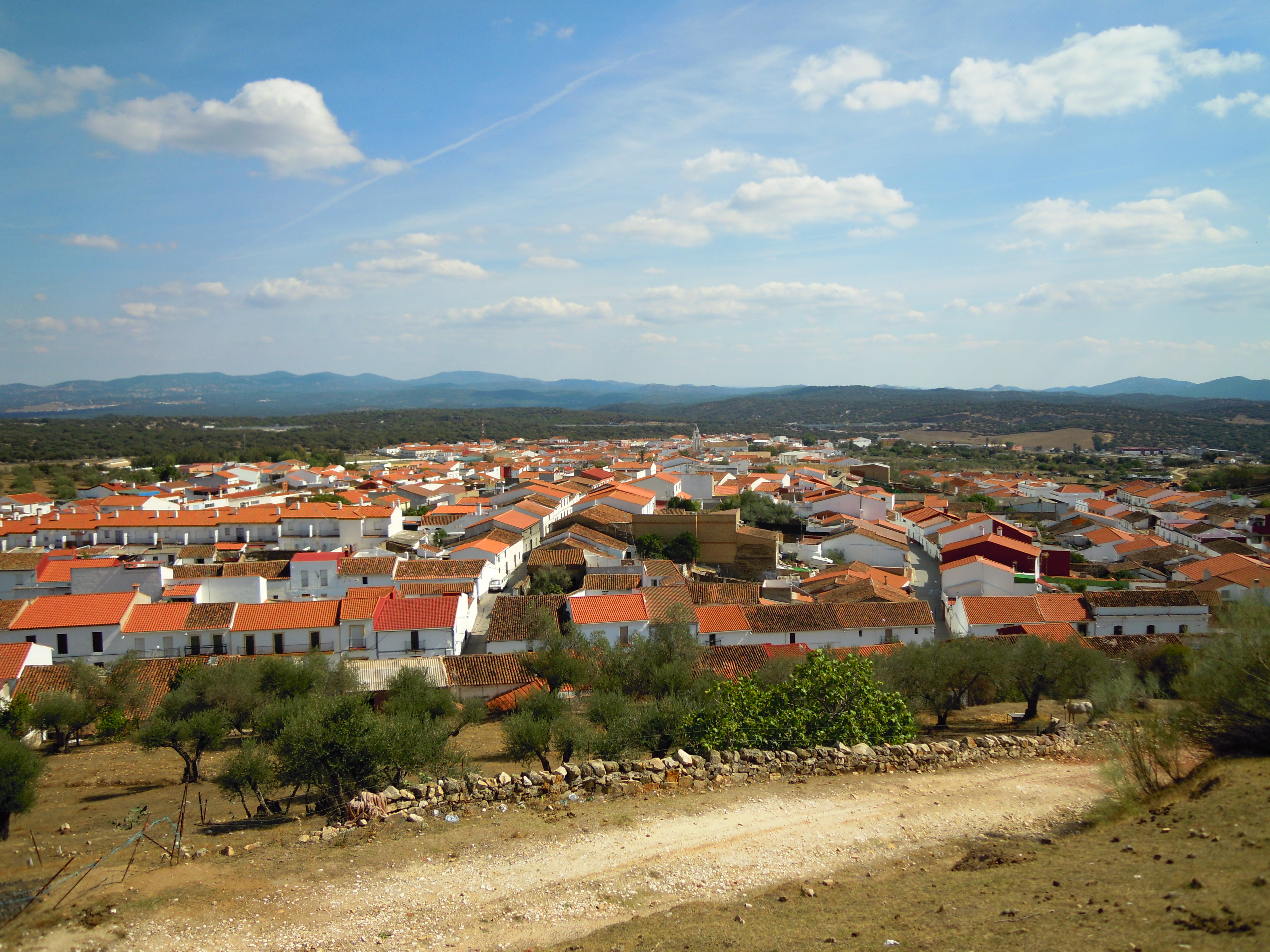 Panoramic photo view of the village of Santa Olalla del Cala taken from the castle hill